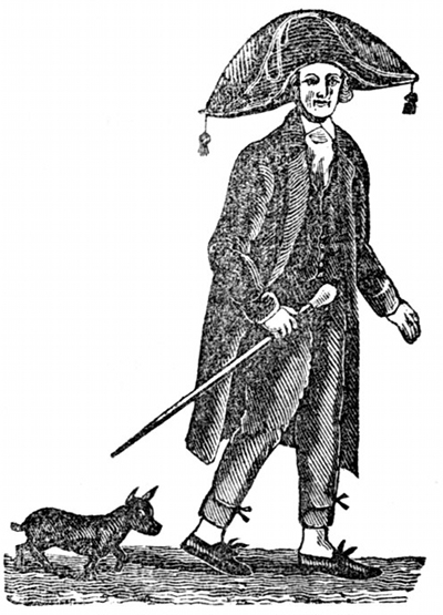 "Lord" Timothy Dexter, engraved 1805, published 1806; "...a full length portrait of the Eccentric Character with his Dog, engraved from Life, by James Akin."